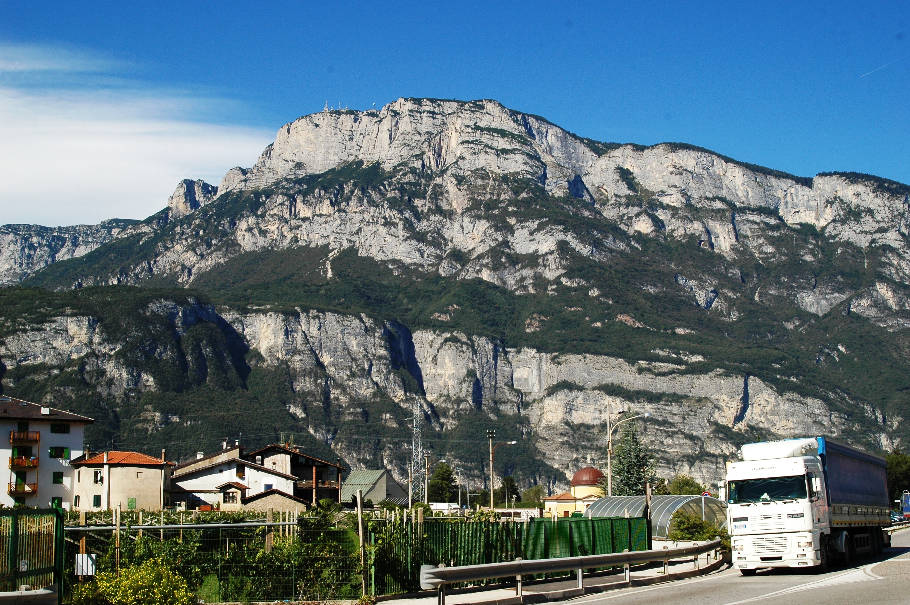 Lavis (Italy): mount Paganella seen from SS12